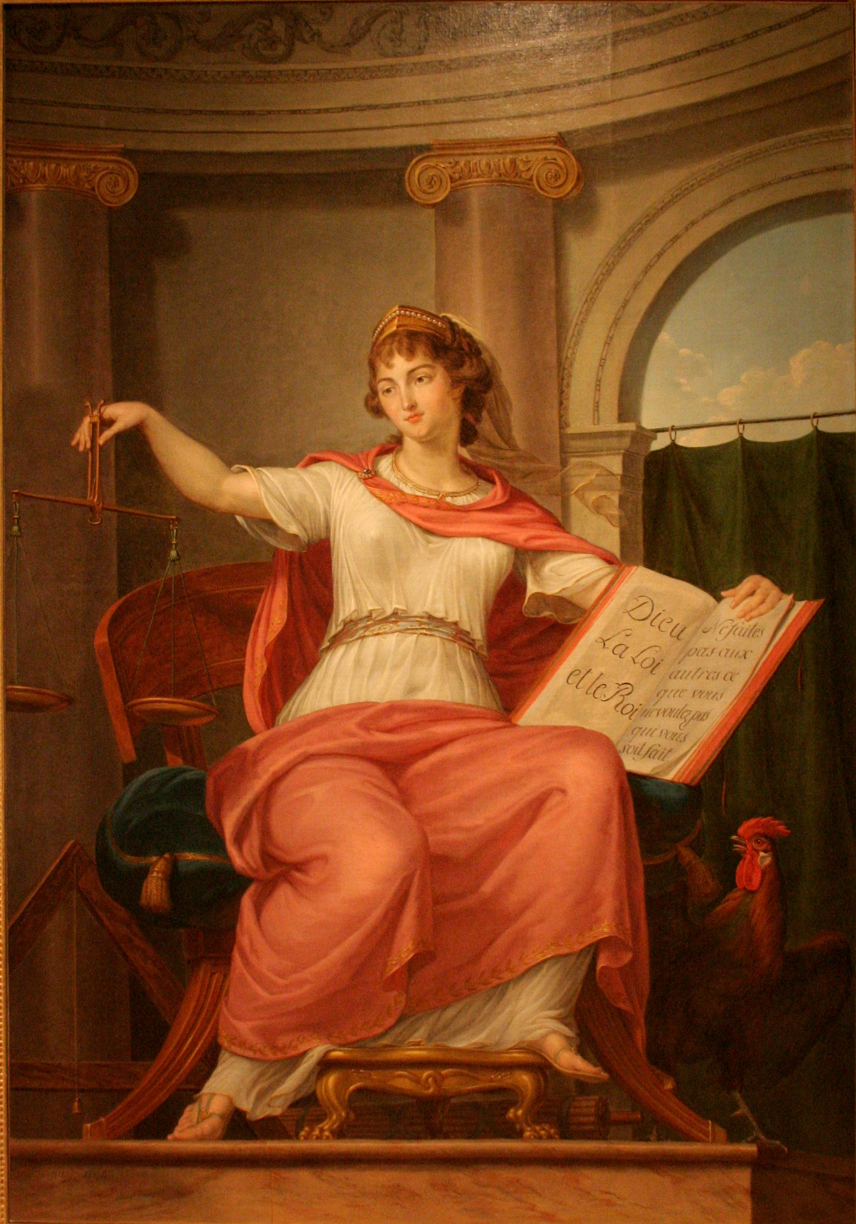 Bernard d'Agesci (1757-1828), La justice, musée de Niort. Holds scales in one hand and in the other hand a book with "Dieu, la Loi, et le Roi" on one page and the Golden rule on the other page.